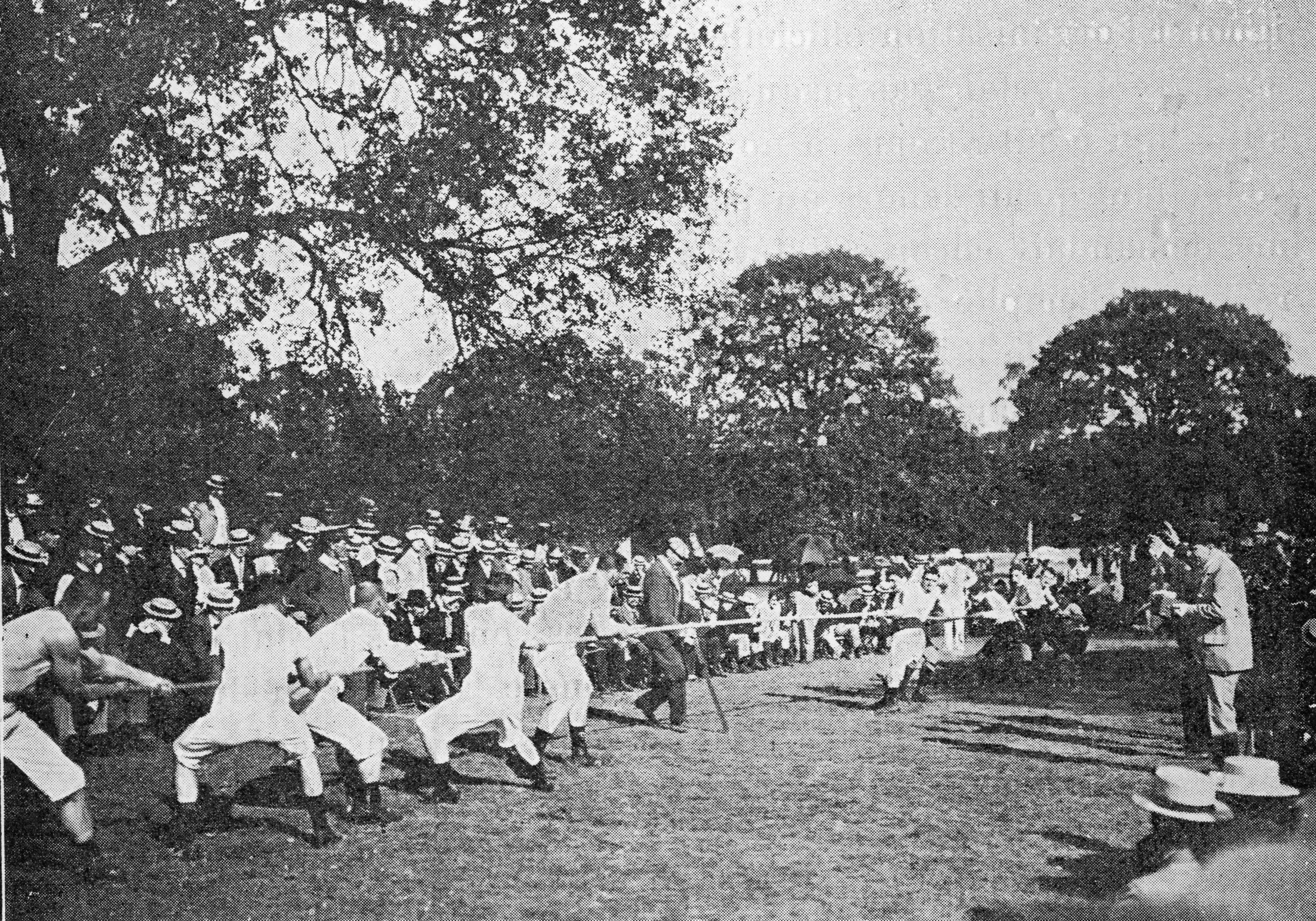 Book by Pierre de Coubertin